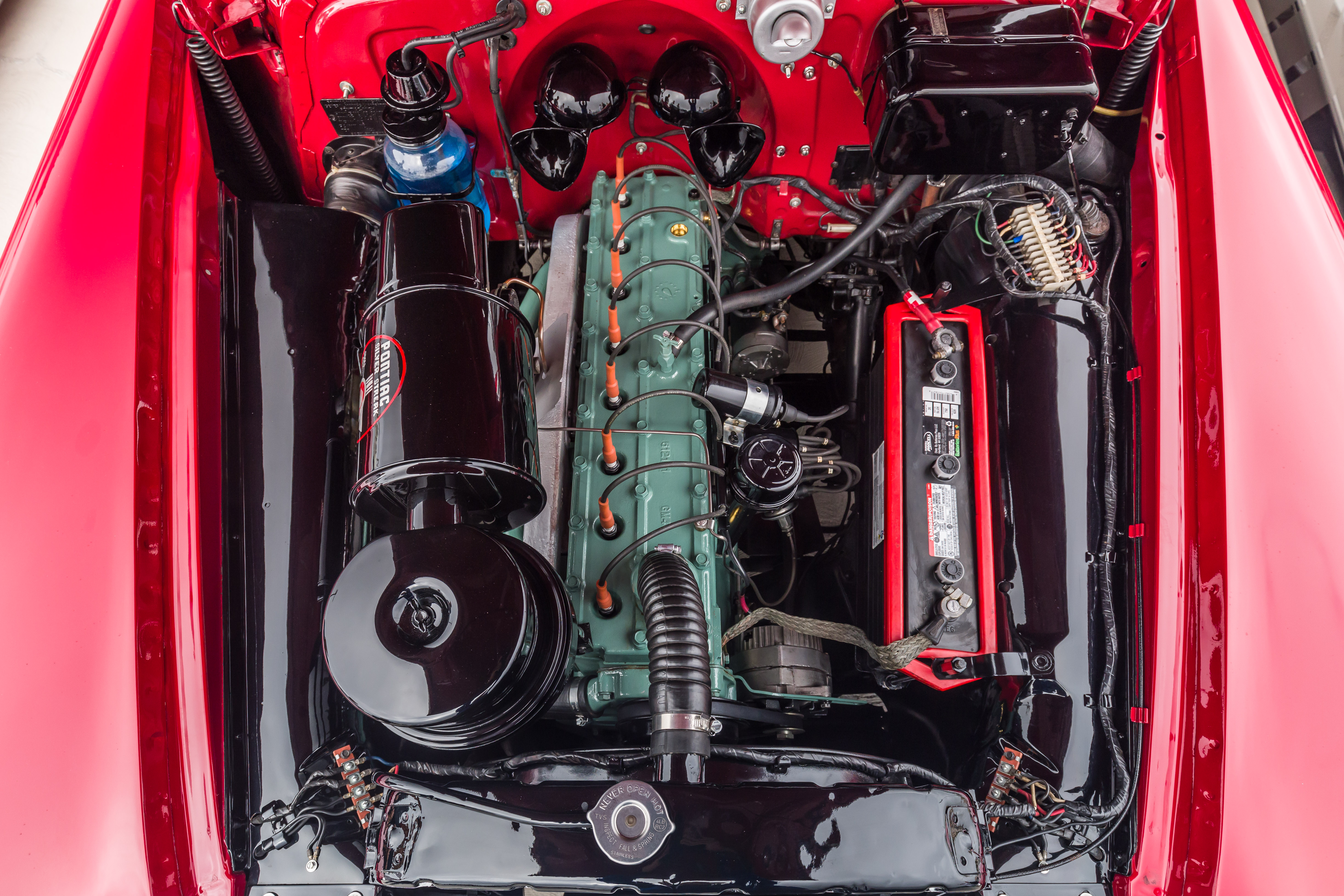 a Silverstreak 8 from a 1949 Pontiac Streamliner with "heavy duty" oil-bath air cleaner designed for use in dusty conditions